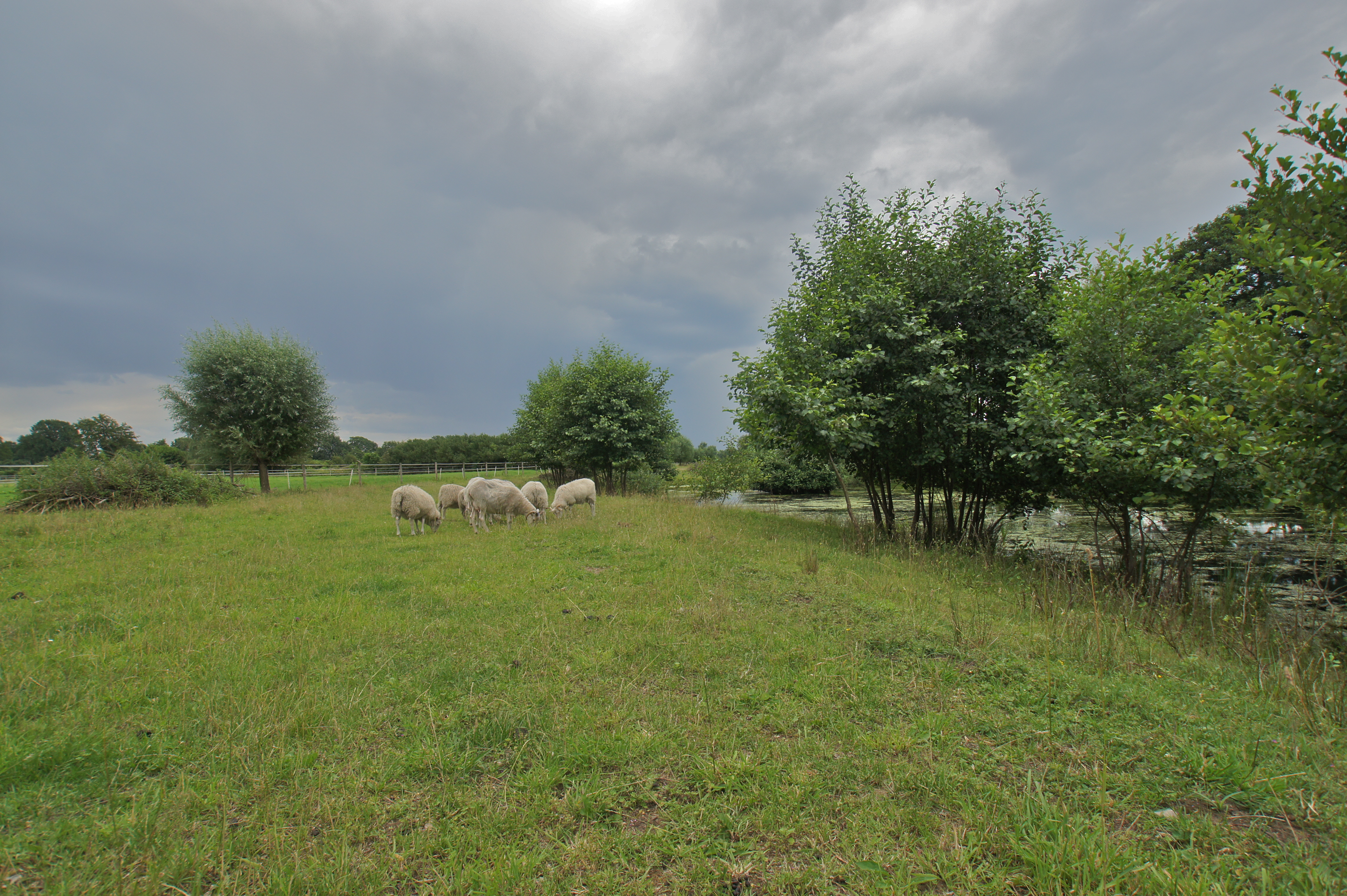 Hamburg (Osdorf), Germany: Brook and sheep